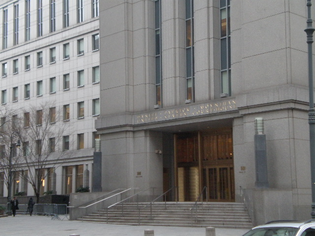 This photo is of Wikipedia Takes Manhattan location code 174, Foley Square. Daniel Patrick Moynihan U.S. Courthouse at 500 Pearl Street.